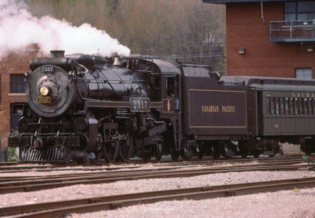 Official photo of the Steamtown National Historic Site, Scranton, Pennsylvania, United States showing the CP 2317 steam engine.